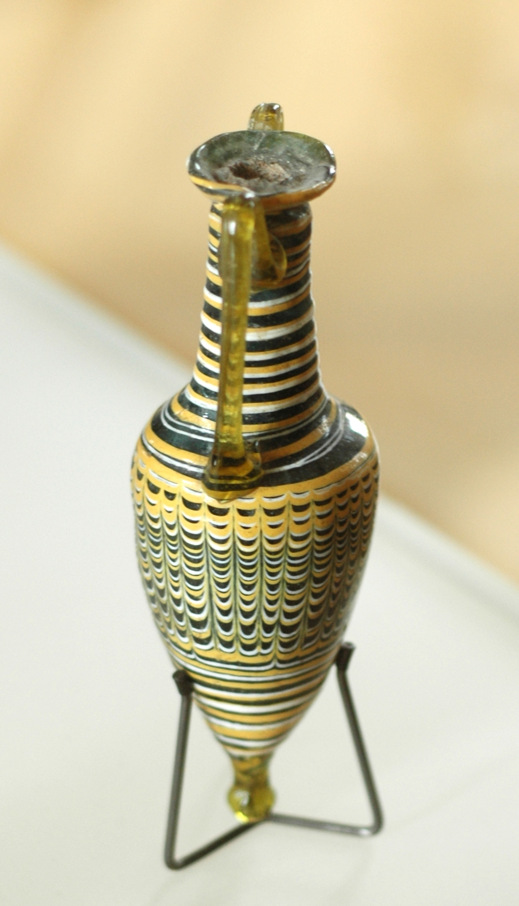 Amphoriskos.